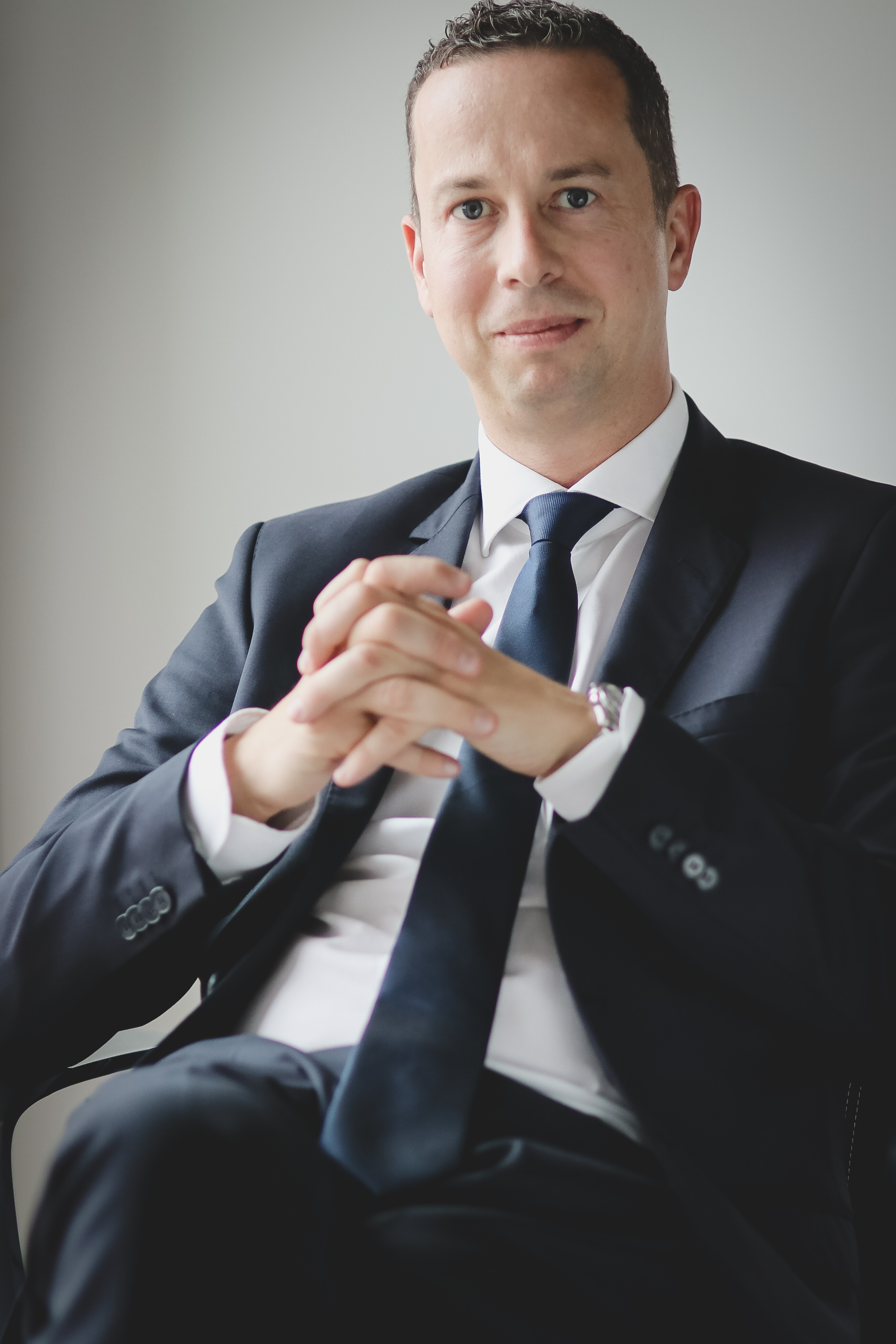 Florian Rentsch, Vorstandsvorsitzender des Verbandes der Sparda-Banken e.V.